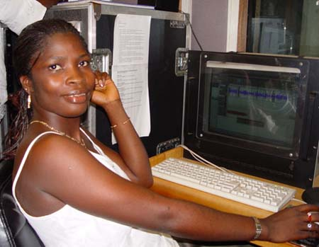 Isata Mahoi radio editor at Talking Drum Studio, Freetown Sierra Leone. Who plays Mamy Saio in the radio soap opera Atunda Ayenda.